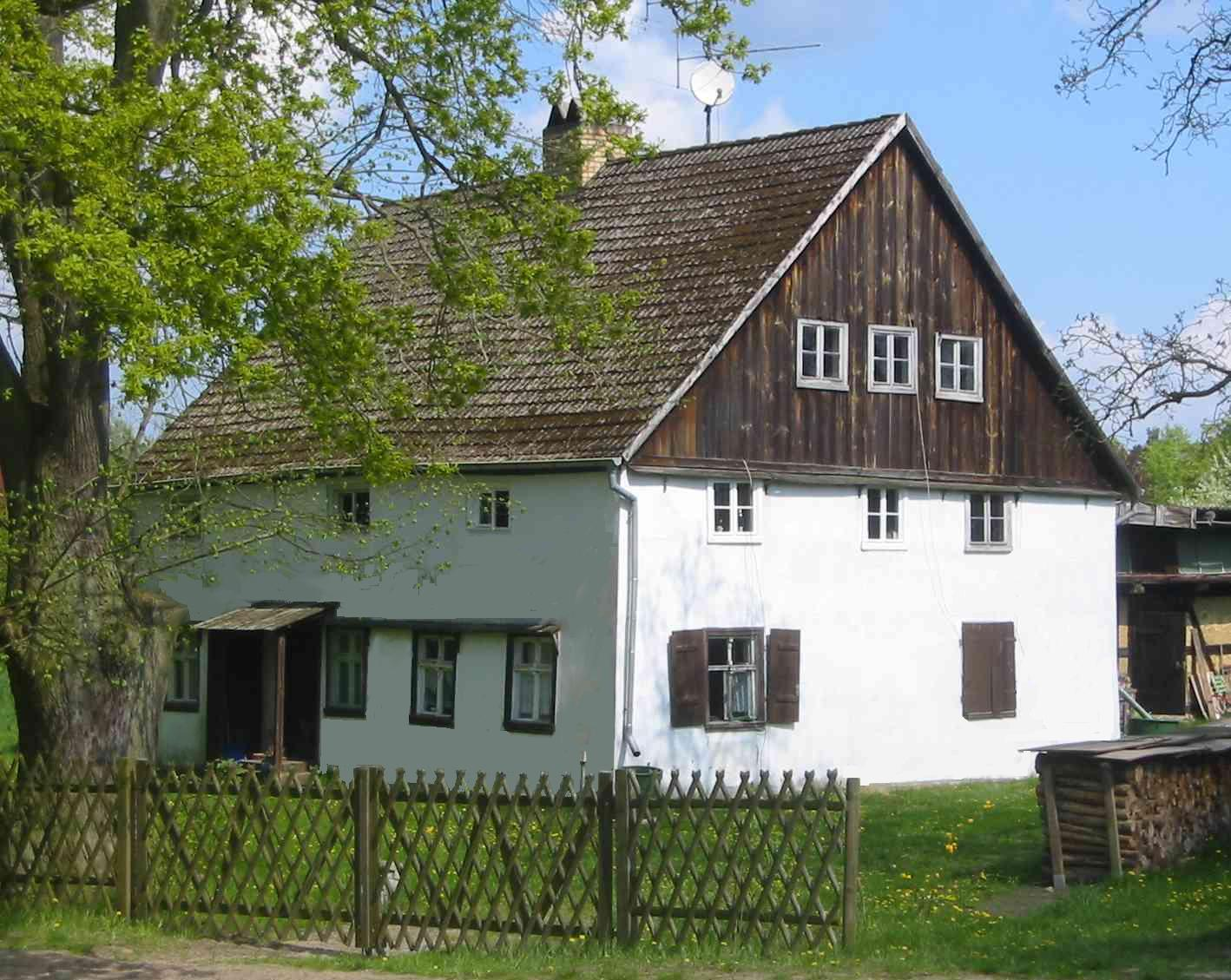 Der Lindenhof in Zermützel